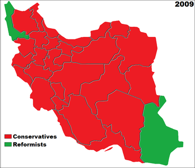 2009 Iranian Election map